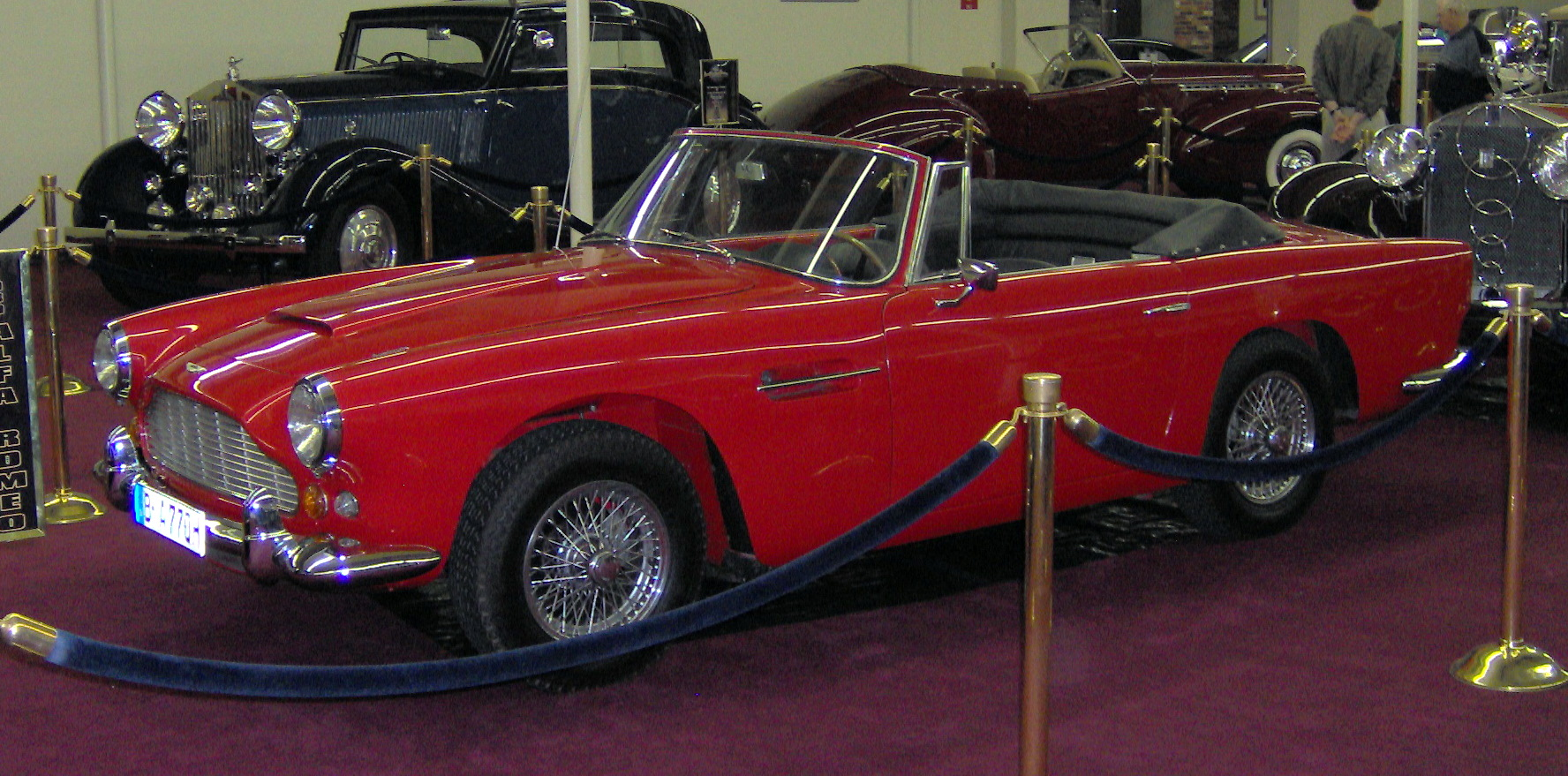 1962 Aston Martin DB4 Series IV Convertible